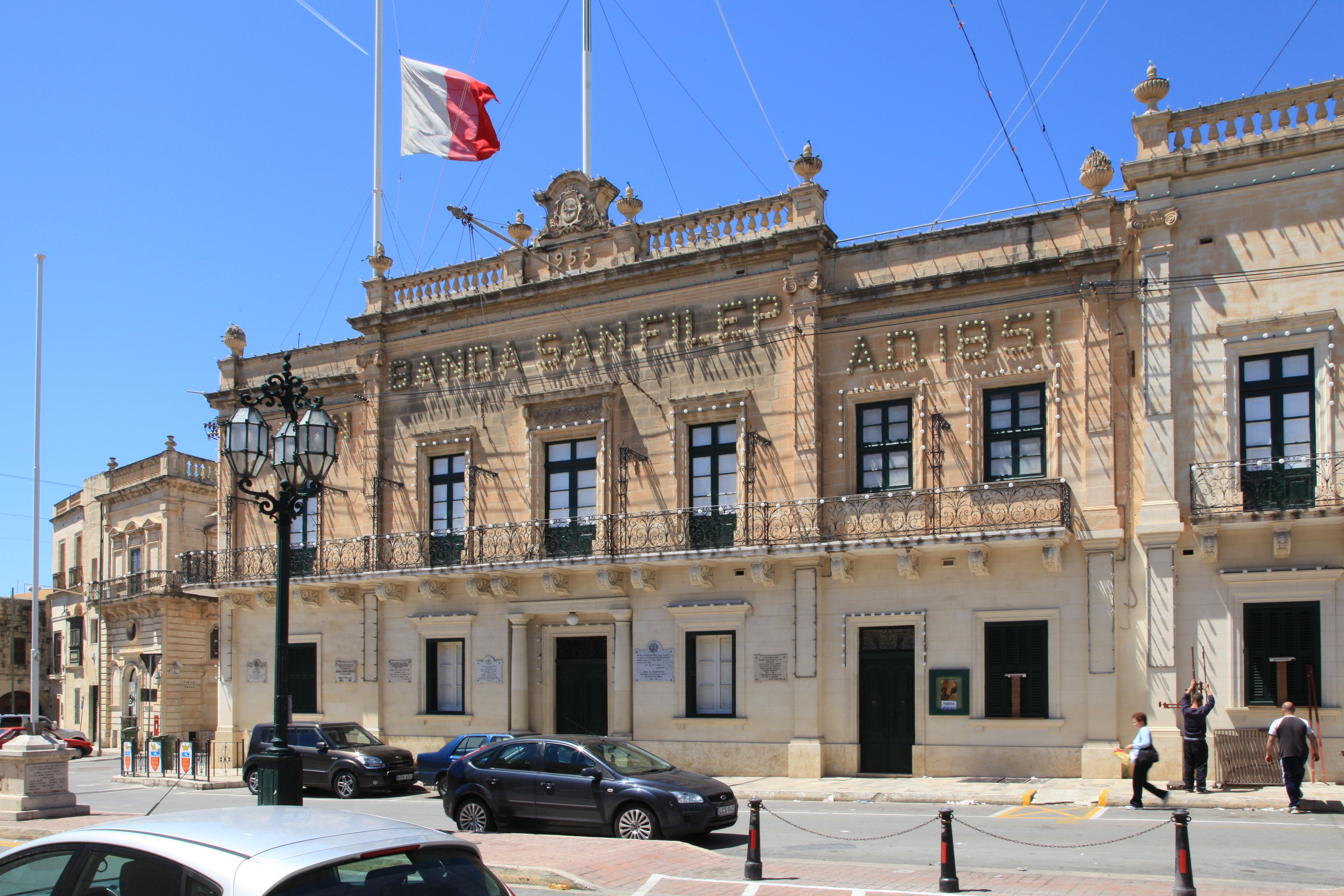 Triq Sciortino in Żebbuġ, Malta